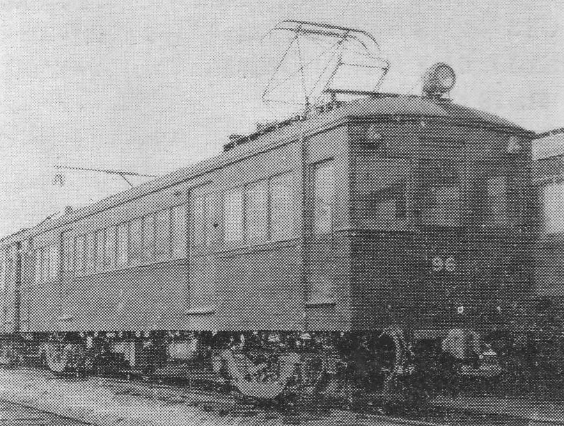 Hankyu 96.